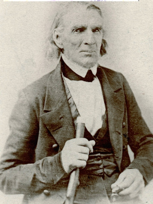 John Smith (age 72), the uncle of Joseph Smith, and the forth Presiding Patriarch of The Church of Jesus Christ of Latter-day Saints (LDS Church).